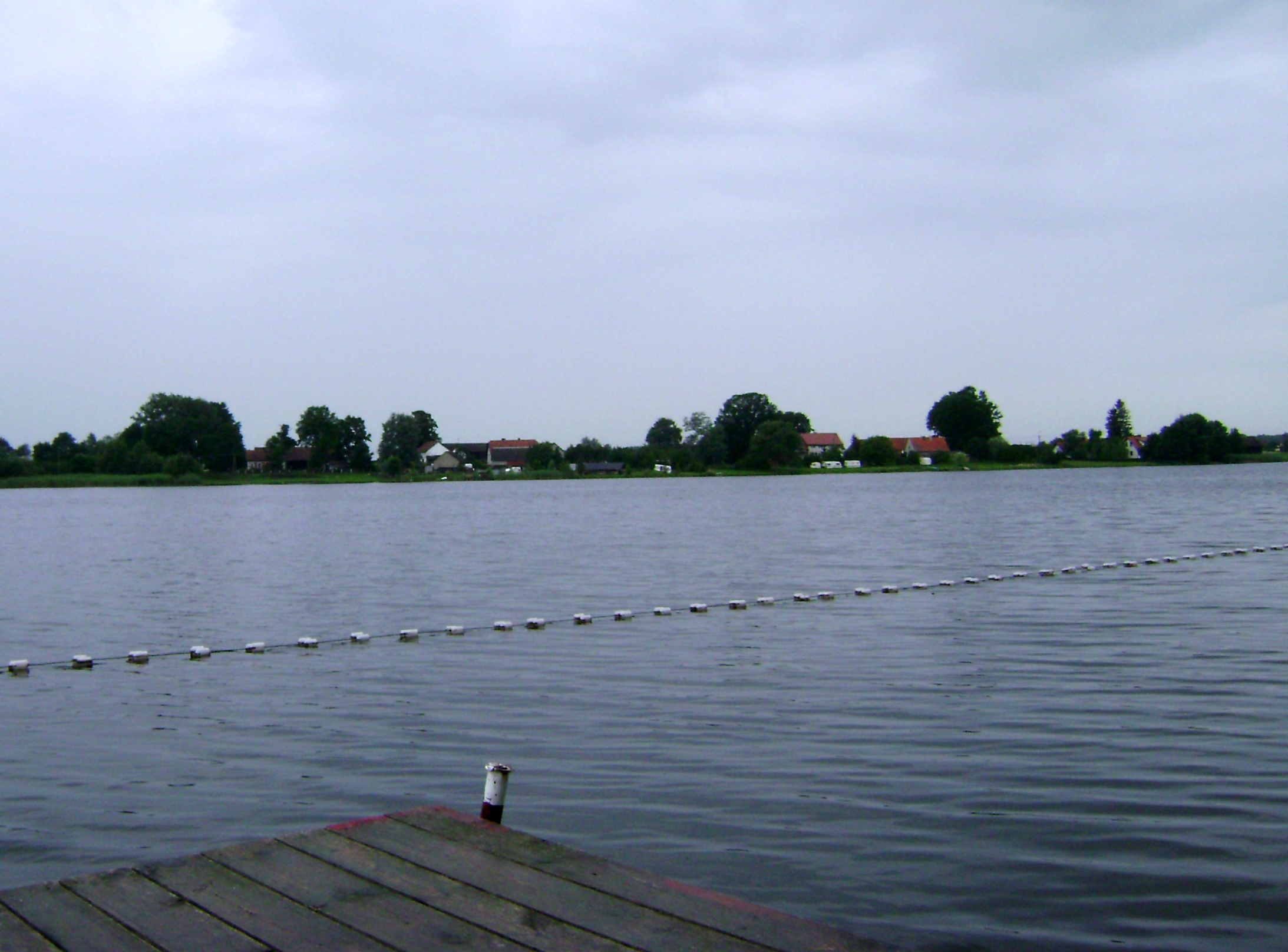 Poland. Gmina Jedwabno. Brajnickie Lake